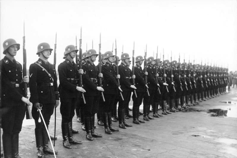 Soliders of the Leibstandarte SS Adolf Hitler standing at attention at the arrival of the British Foreign Secretary Viscount Simon at Berlin Tempelhof Airport on 24 March 1935.